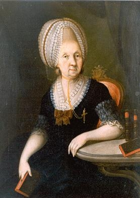 Portrait of Marianna Franziska von Hornstein (1723-1809), princess-abbess of Säckingen